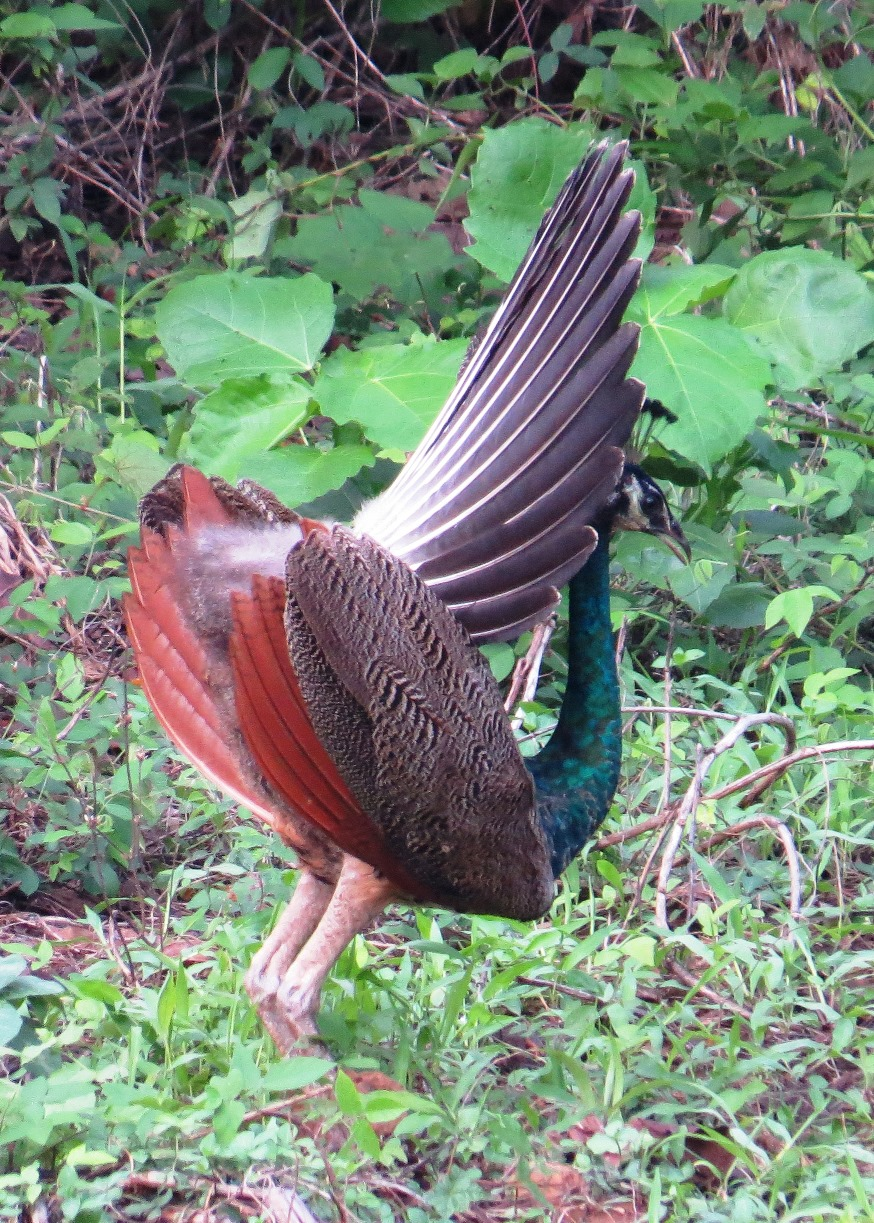 Indian peafowl (Pavo cristatus)